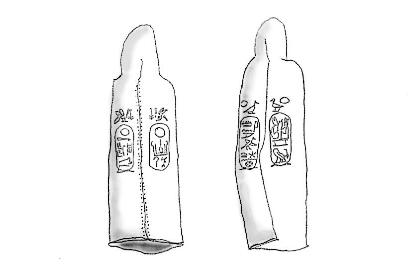 Drawing of two golden bow caps bearing the names of pharaohs Amenemnesut and Psusennes I of the 21st Dynasty, found by Pierre Montet in 1940 in the Royal Necropolis of Tanis, now in Cairo Museum. See annotations for the readings. Redrawn from Montet (1952), Les énigmes du Tanis p. 156, fig. 30.